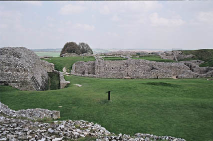 OLD SARUM ruins